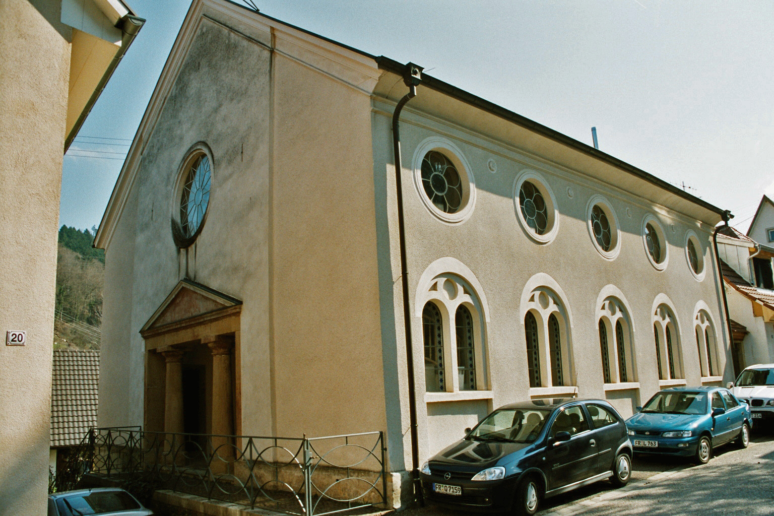 The synagogue in Sulzburg, Germany.